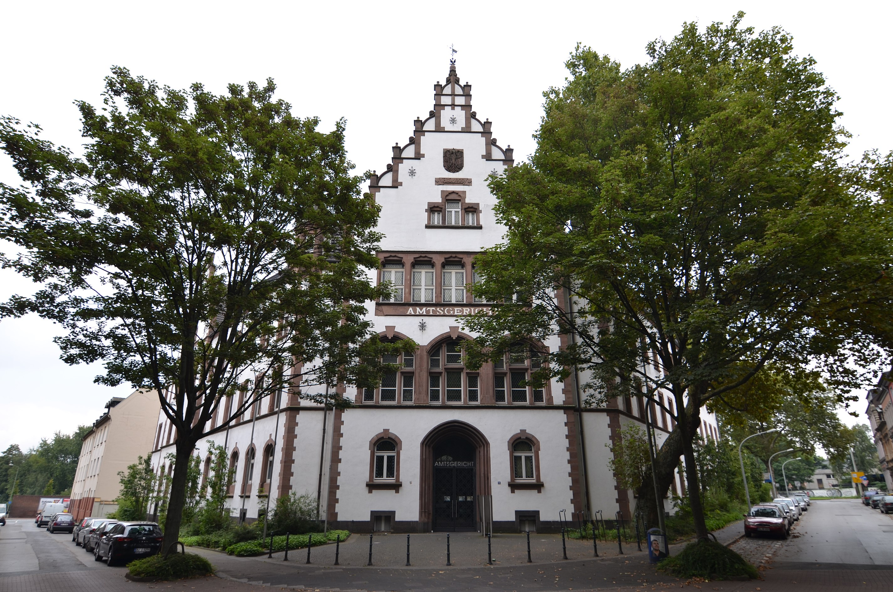 Duisburg (North Rhine-Westphalia, Germany) – borough Homberg/Ruhrort/Baerl, district Ruhrort – local courthouse This image shows a heritage building in Germany, located in the North Rhine-Westphalian city Duisburg (no. 5). This photograph was taken with a Nikon D7000